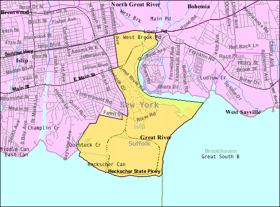 U.S. Census 2000 reference map for Great River